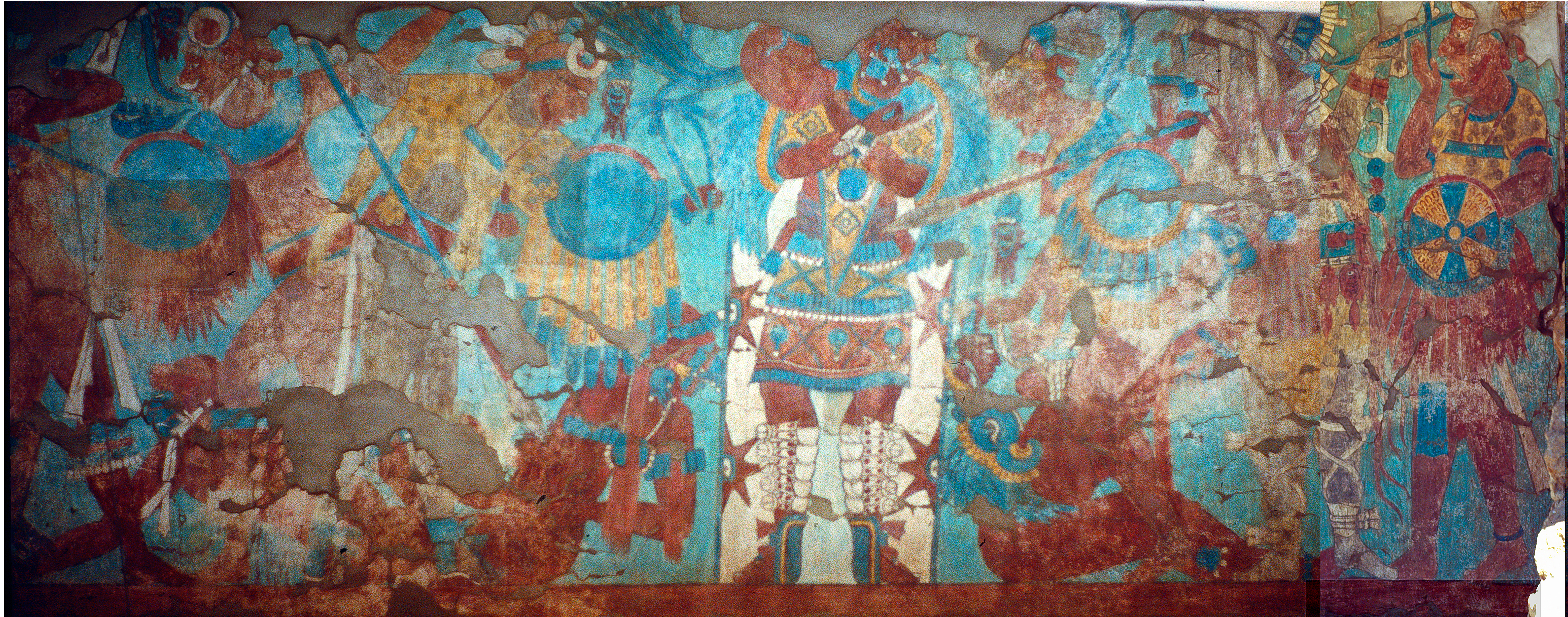 Cacaxtla, Tlaxcala, Mexico: mural of the battle scene